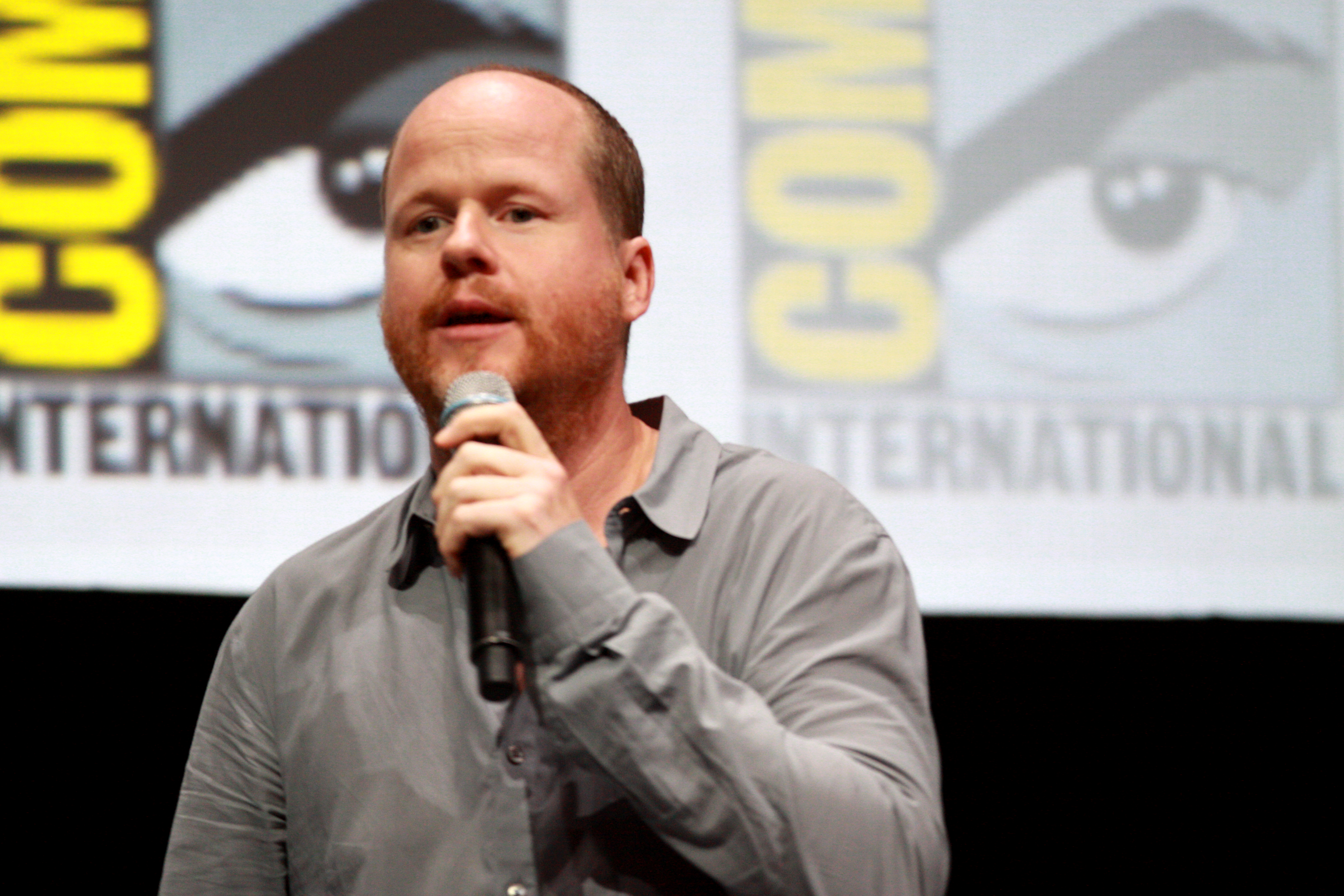 Joss Whedon speaking at the 2013 San Diego Comic Con International, for "The Avengers: Age of Ultron", at the San Diego Convention Center in San Diego, California.